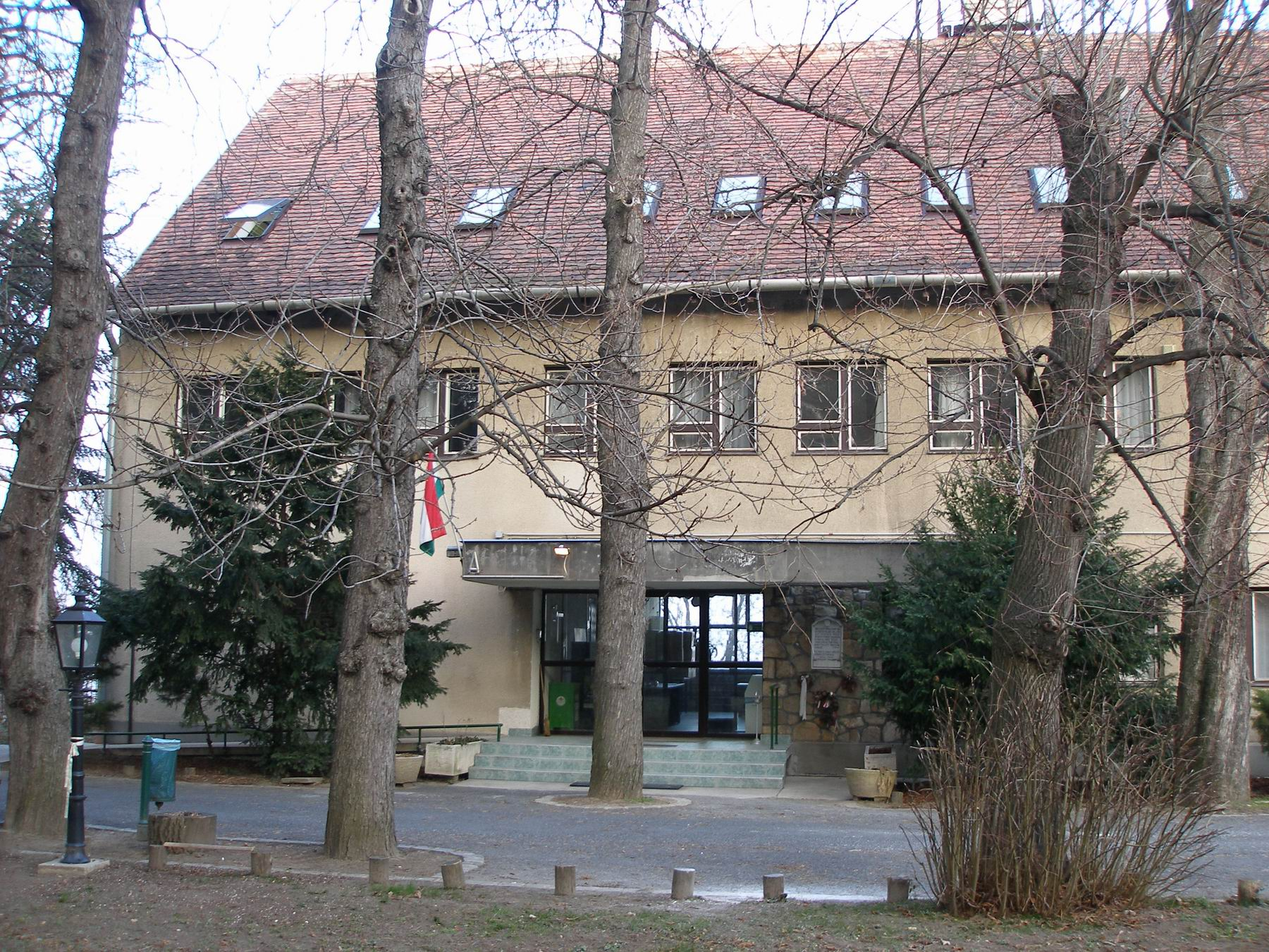 Keve Andras Library, Budapest, Hungary